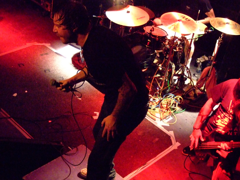 36 Crazyfists live at the UK-Tour in 2007.